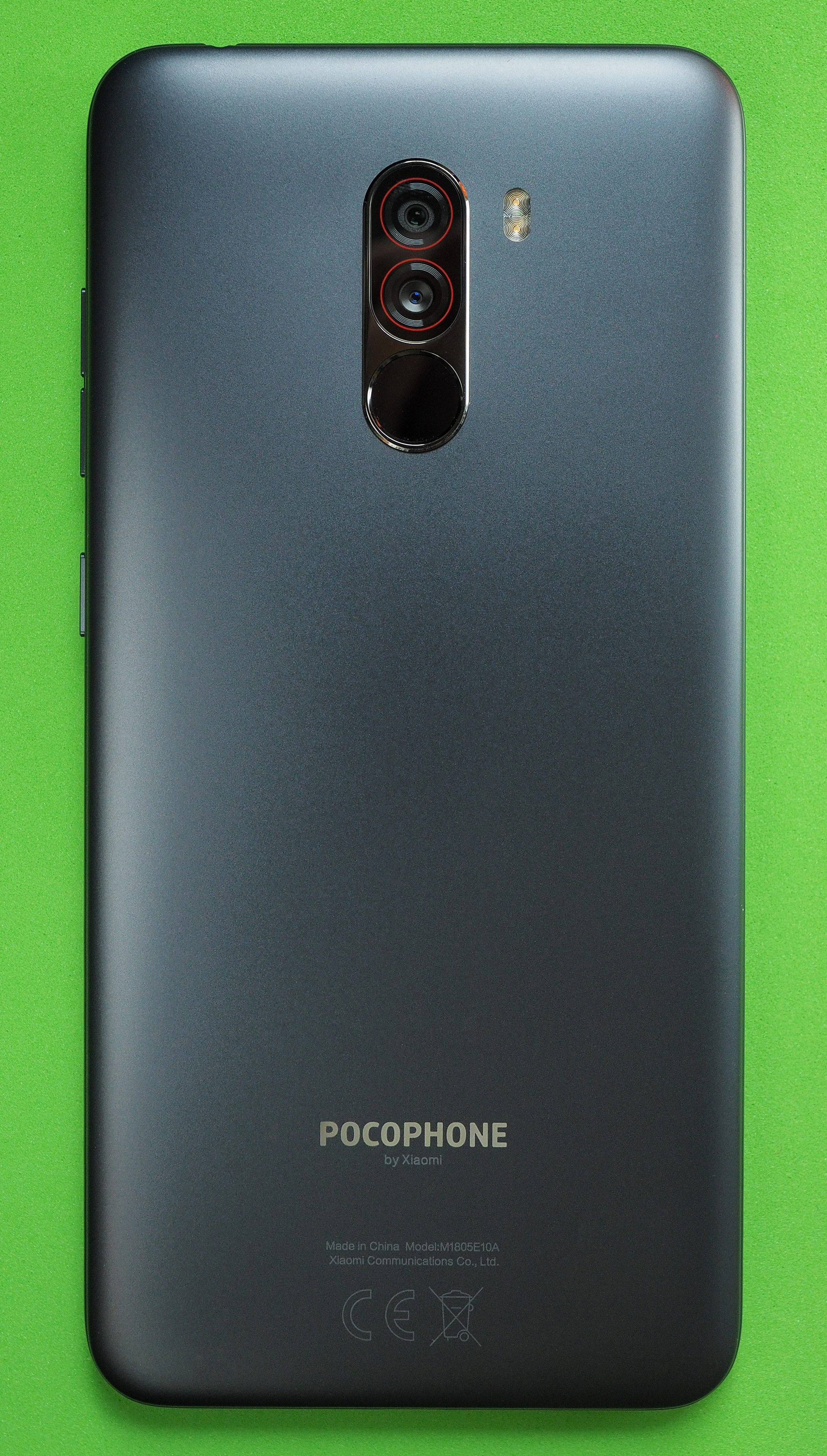 Xiaomi Pocophone F1, backside with dual camera: above 12 MP, f/1.9, 1/2.55", 1.4µm, dual pixel PDAF and bottom camera 5 MP, f/2.0, 1.12µm, depth sensor. Double flash diode on right side.Fingerprint sensor is bellow the camera.